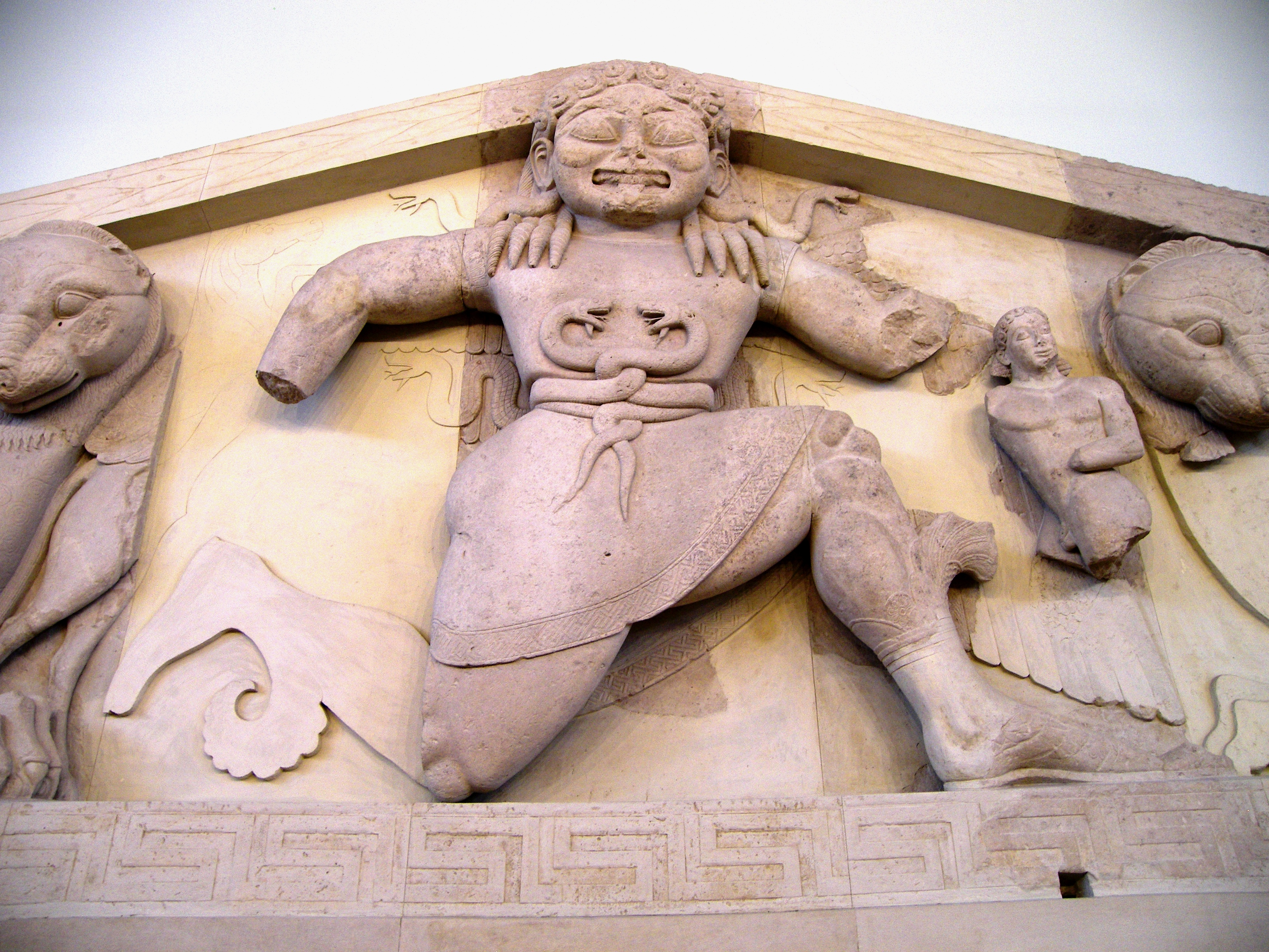 An archaic Gorgon (around 580 BC), as depicted on a pediment from the temple of Artemis in Corfu, on display at the Archaeological Museum of Corfu.